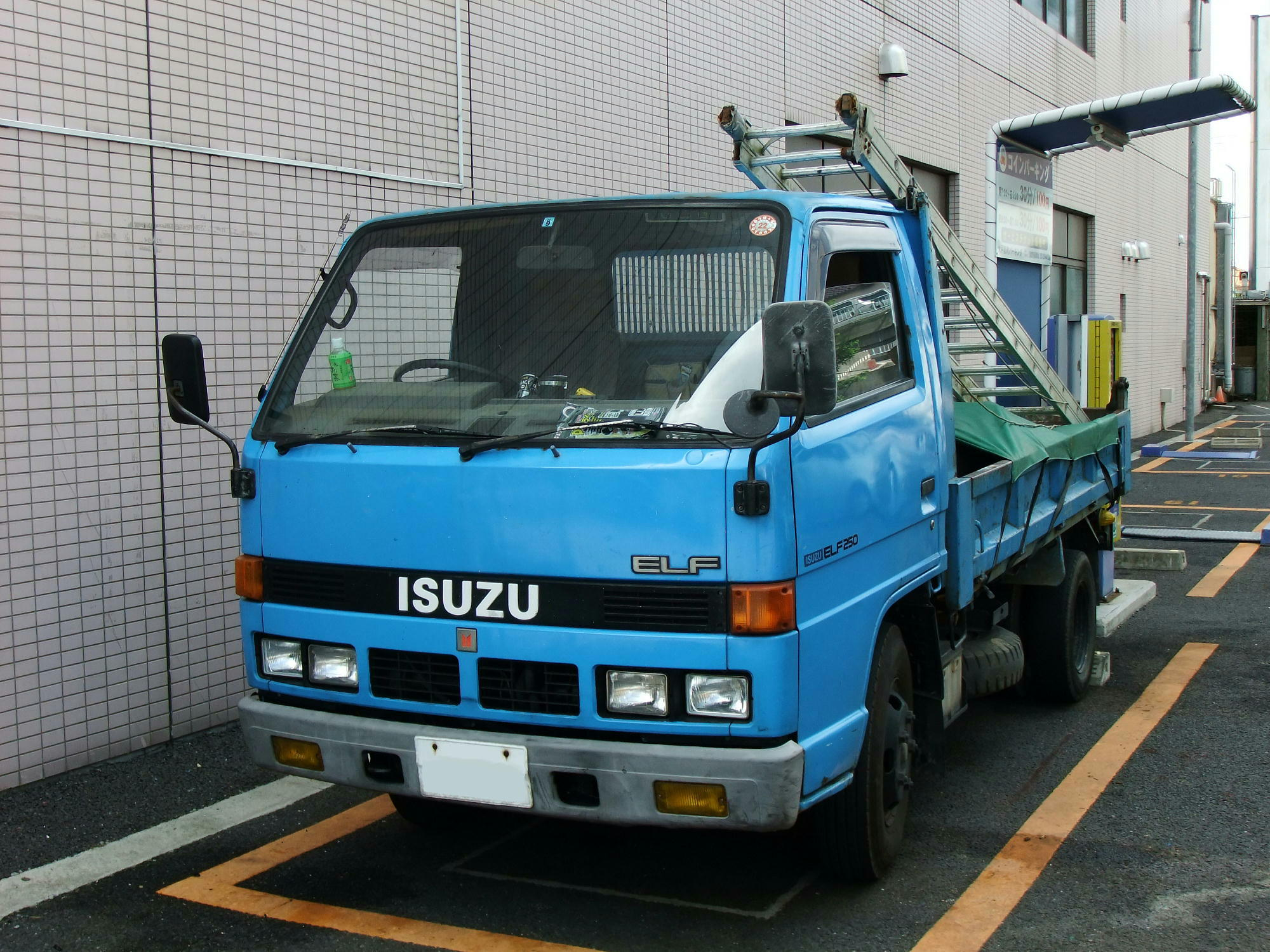 ISUZU, ELF,（It is called N-series or REWARD excluding a Japanese market.）